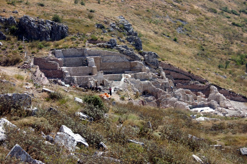 Sagalassos - Domestic Area (Tijl Vereenooghe, August 2005)